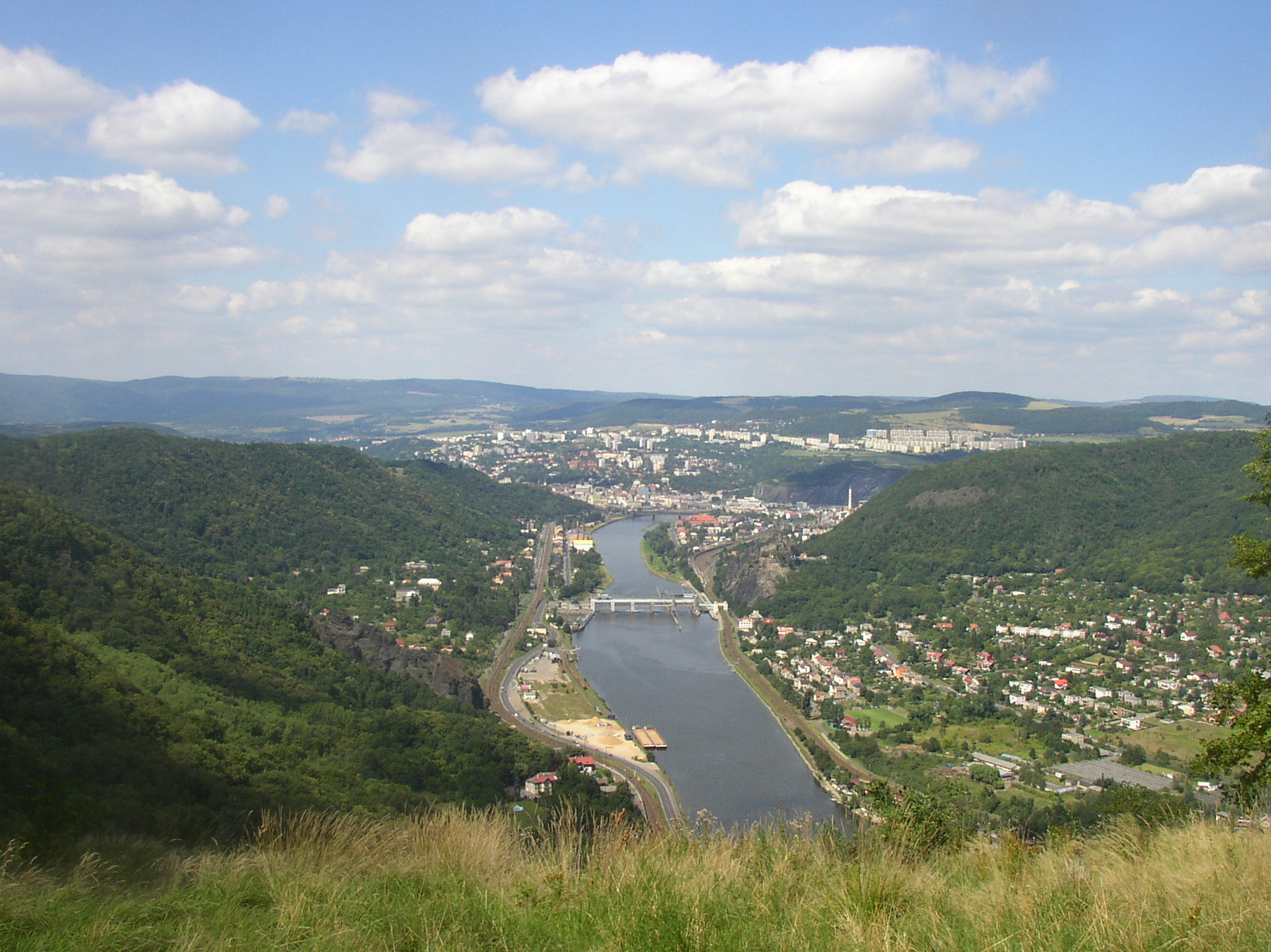 City of Ústí nad Labem, Czech Republic, as seen from south, from Vaňovská skála (Vaňov Rock) lookout point.